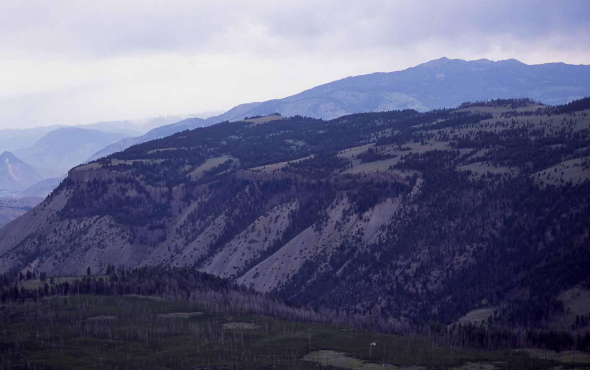 Aerial view of Mount Everts, Yellowstone National Park